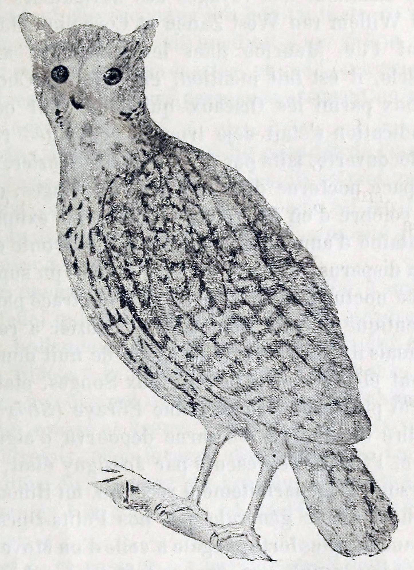 Scops commersoni=Mascarenotus sauzieri (Mauritius Owl). Illustration from Notice sur la faune ornithologique ancienne et moderne des iles Mascareignes et en particulier de l'ile Maurice : d'apres des documents inedits. From Annales des sciences naturelles, 8e ser., III, 1-128 (1896) by Émile Oustalet. Based on a paiting by Paul Philippe Sanguin de Jossigny from 1770